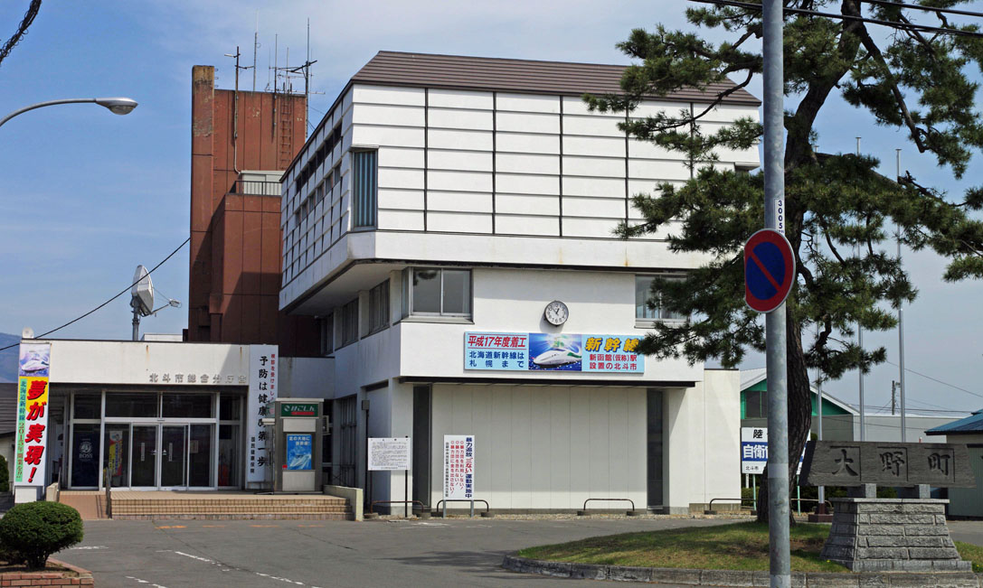 Amount of public office building in Hokuto city